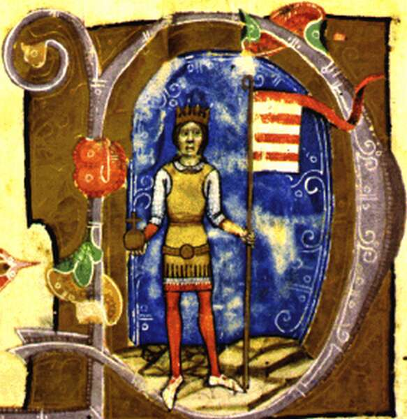 Béla III of Hungary